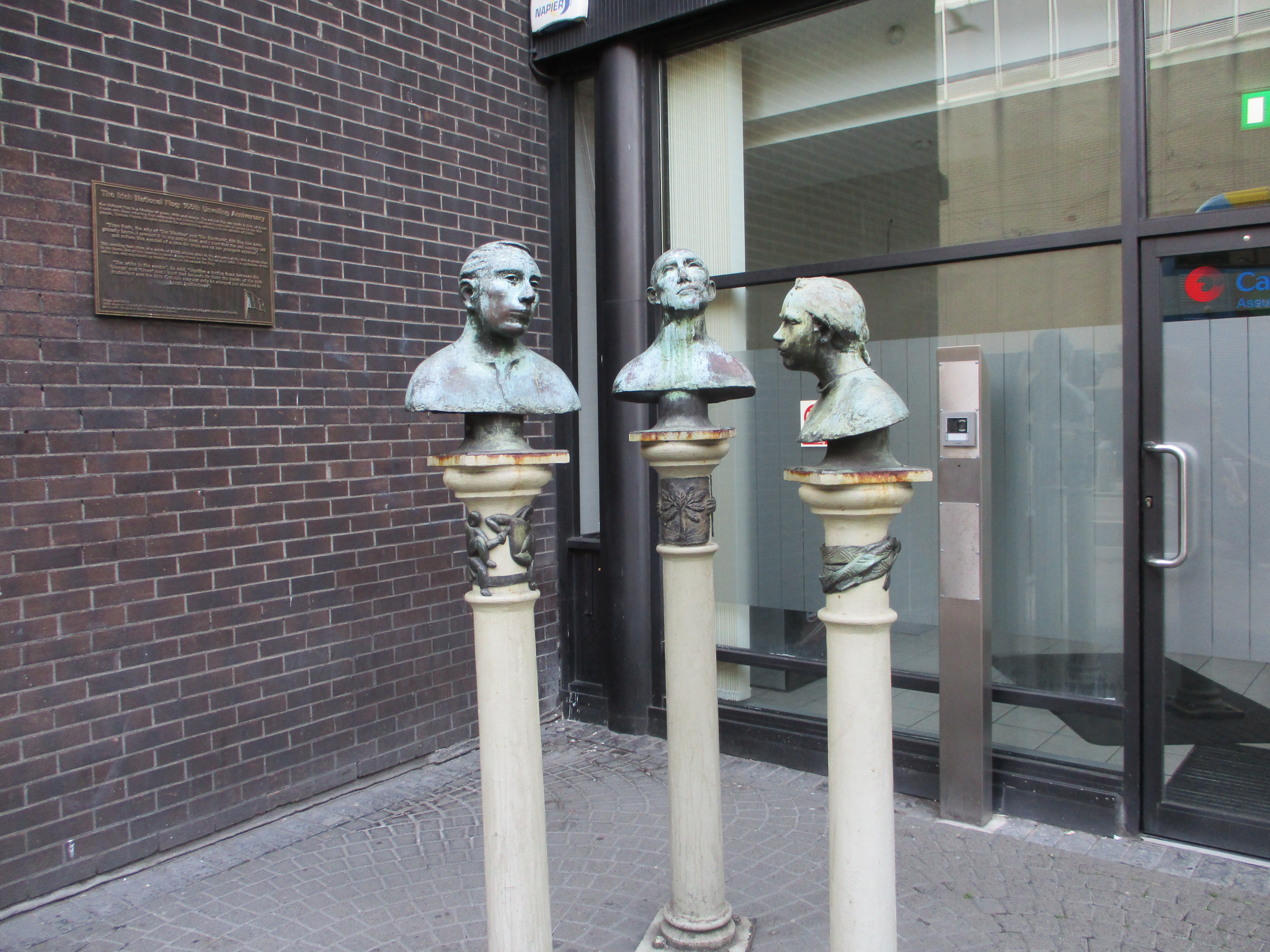 Talking Heads sculpture in Abbey Street, Dublin. Sculptor Carolyn Mulholland, 1990